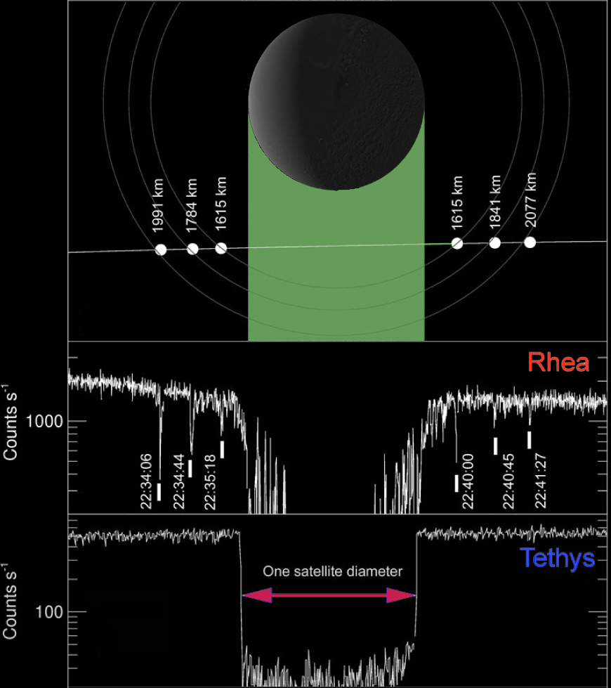 Graph of readings form Cassini at Rhea and Tethys. Readings of the Magnetospheric Imaging Instrument (MIMI) of the Cassini orbiter, and their interpretation as of March 2008.